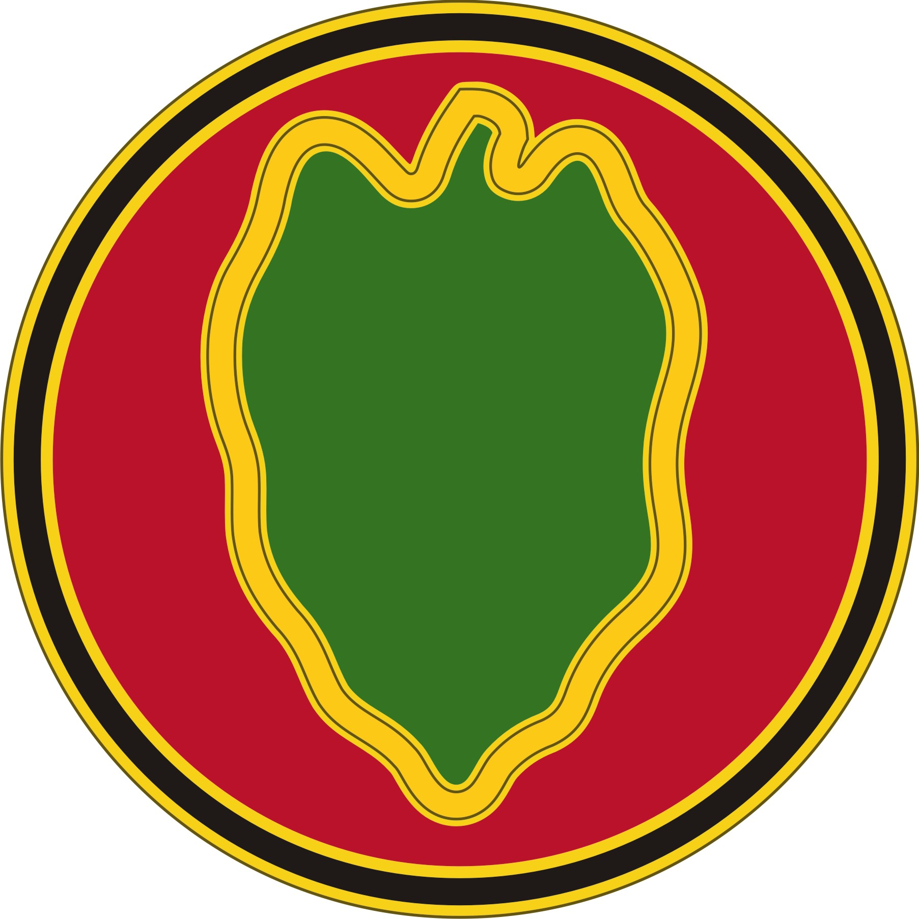 Combat Service Identification Badge of the 24th Infantry Division.